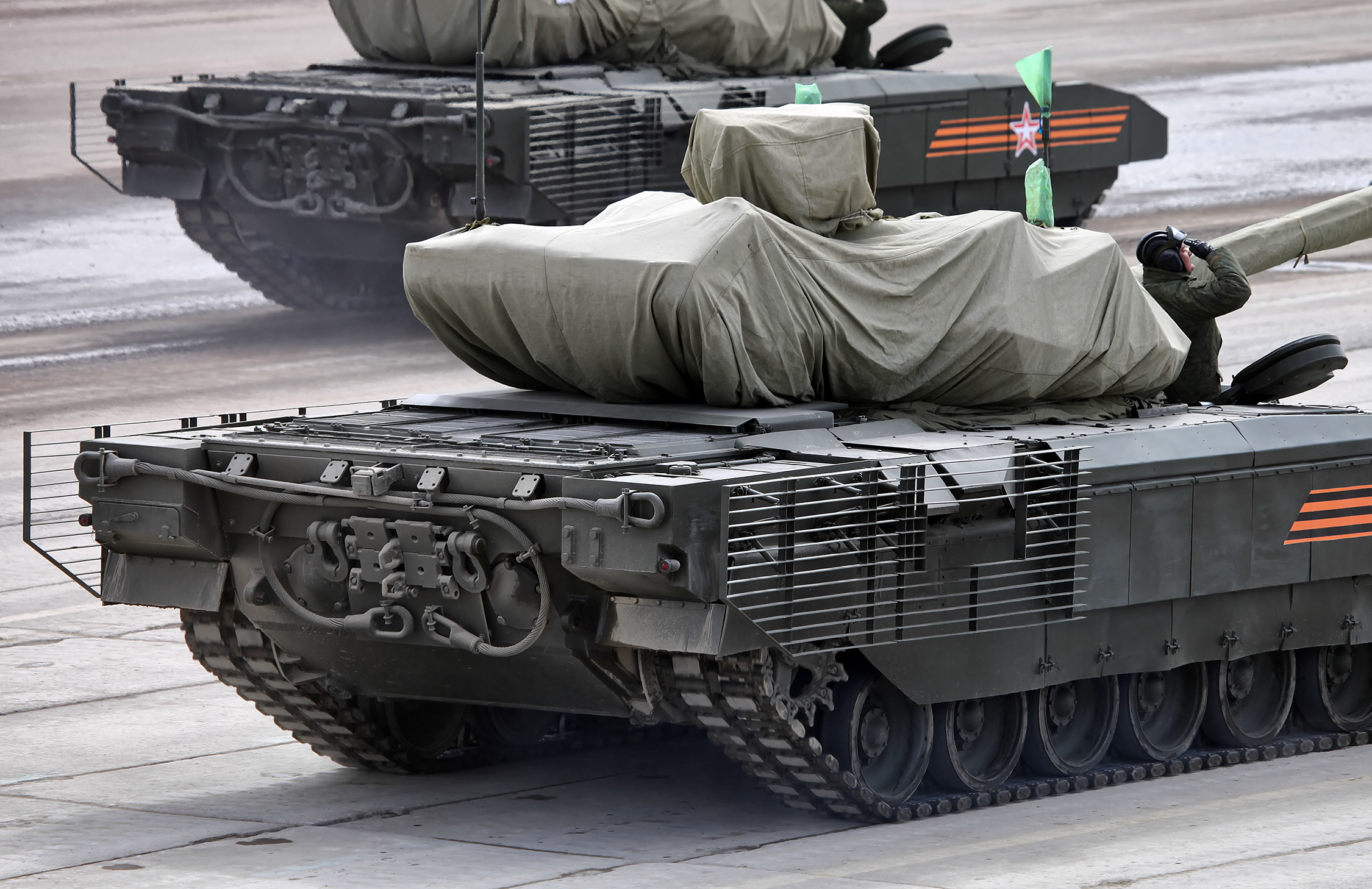 tank T-14 object 148 Armata (during the first open rehearsal in Alabino)